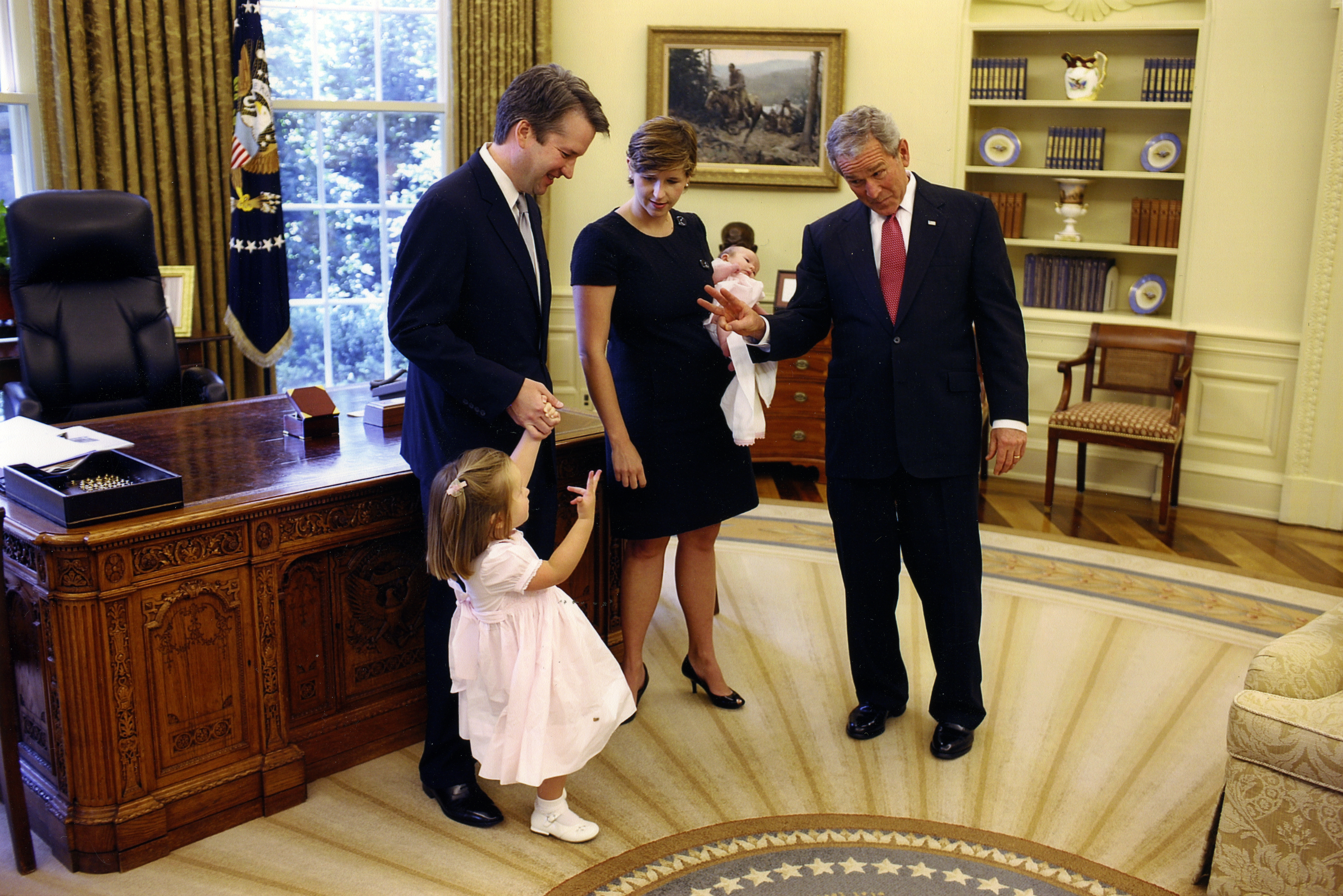 The Kavanaugh family with George W. Bush. Part of a slide show, "A Remarkable Career in Photos: Judge Kavanaugh to Testify Before the Senate"